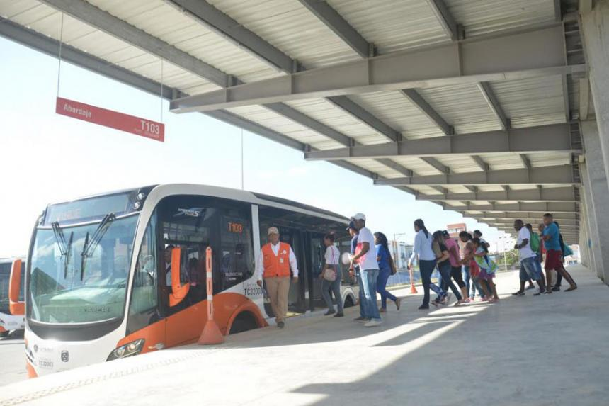 Patio portal abordaje